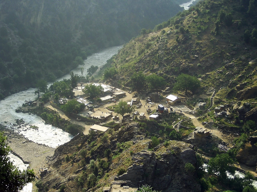 Original caption: “Pictured is a view of Combat Outpost Keating on the Pakistan-Afghanistan border in a remote pocket of Afghanistan, known as Nuristan. According to soldiers who called the outpost home, being at Keating was like being in a fishbowl or fighting from the bottom of a paper cup. It was there, surrounded by mountains and insurgents, that former Staff Sgt. Clinton L. Romesha and his fellow soldiers fought back the enemy in a fierce 12-hour battle, Oct. 3, 2009.”